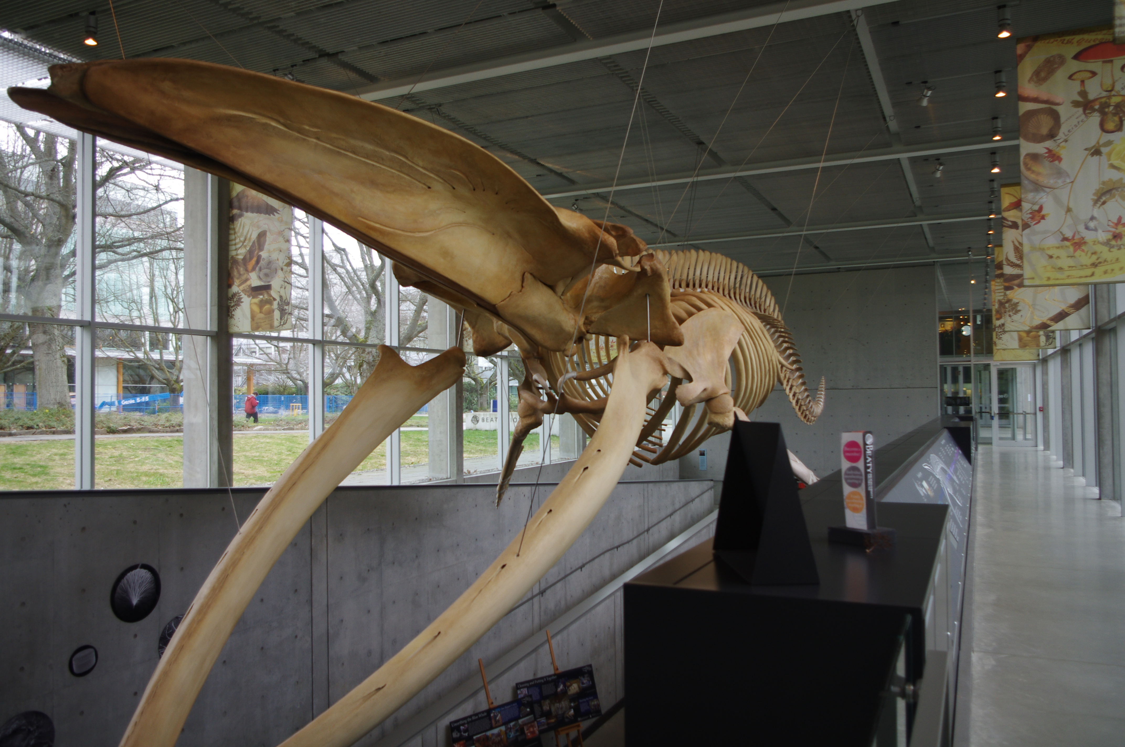 Blue whale skeleton at the Beaty Biodiversity Museum in Vancouver, British Columbia